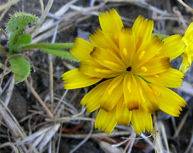 Hedypnois cretica — invasive plant species in the Santa Monica Mountains National Recreation Area, California. Taken at Point Mugu State Park, in Thornhill Broome Beach. NPS photo, no copyright.